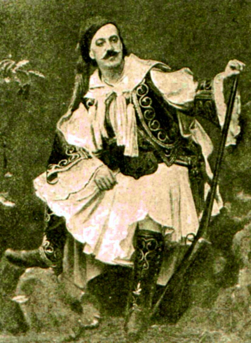 Photo of Lev Ivanovich Ivanov (1834 – 1901), Premier danseur of the St. Petersburg Imperial Theatres in the role of Conrad from Marius Petipa's revival of the ballet Le Corsaire.